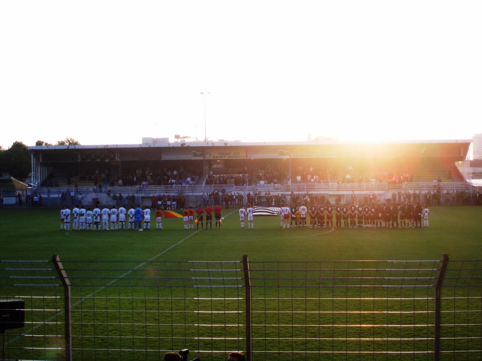 Brittany national football team vs Congo at Stade Fred Aubert in Saint-Brieuc 2008